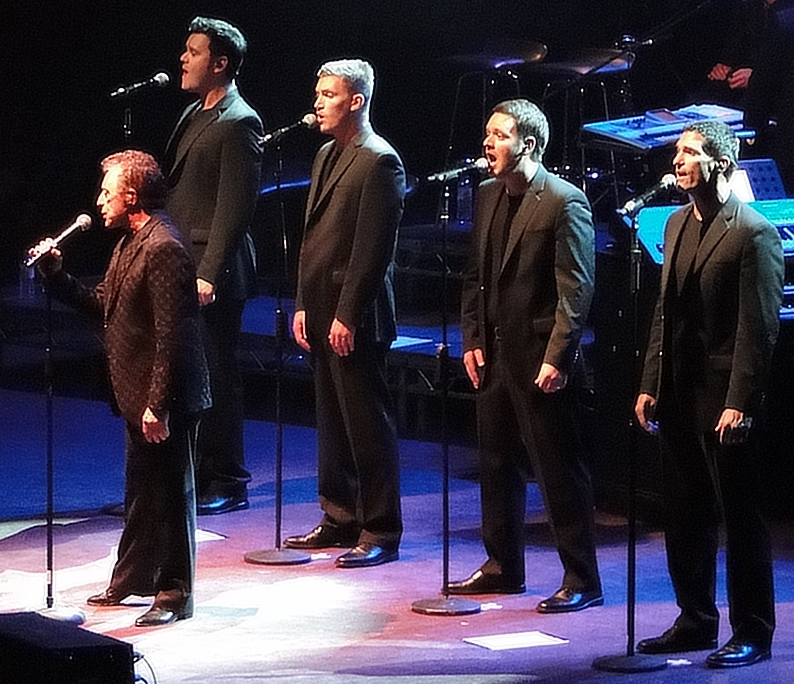 Frankie Valli and The Four Seasons at The Royal Albert Hall, London, June 2012